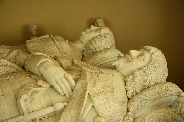 St Mary Magdalene parish church, Stapleford, Leicestershire: tomb of William Sherard, 1st Baron Sherard (Baron Leitrim) (died 1640) and his wife Abigail